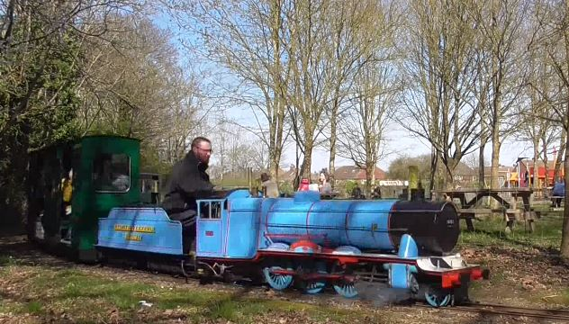 Number 1001 "The Monarch" departs monks brook halt